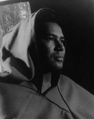 Actor Rex Ingram